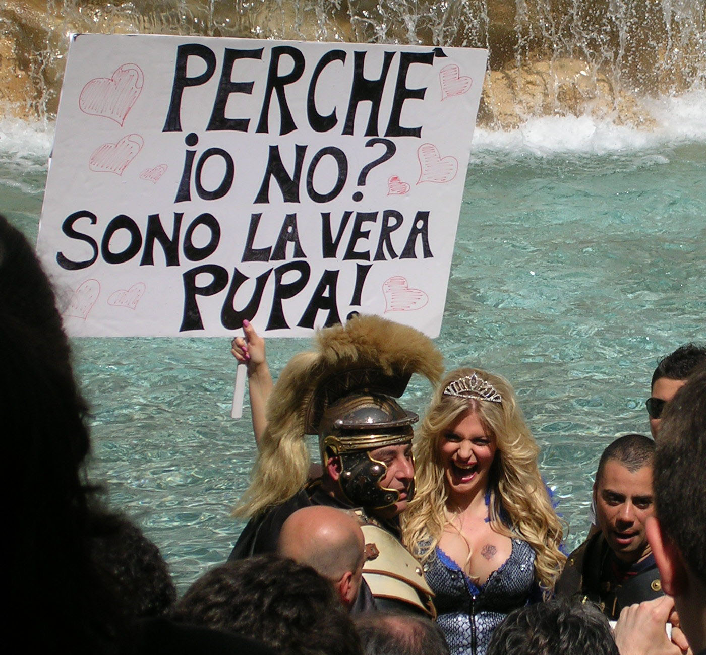 Italian media starlette, Francesca Cipriani, protesting at the Trevi Fountain, Rome, against TV company Endemol.